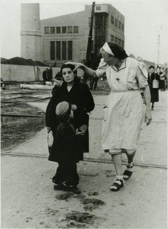 Warsaw Uprising - German Transit Camp in Pruszków (Dulag 121). Polish woman with child and Polish Red Cross Nurse.